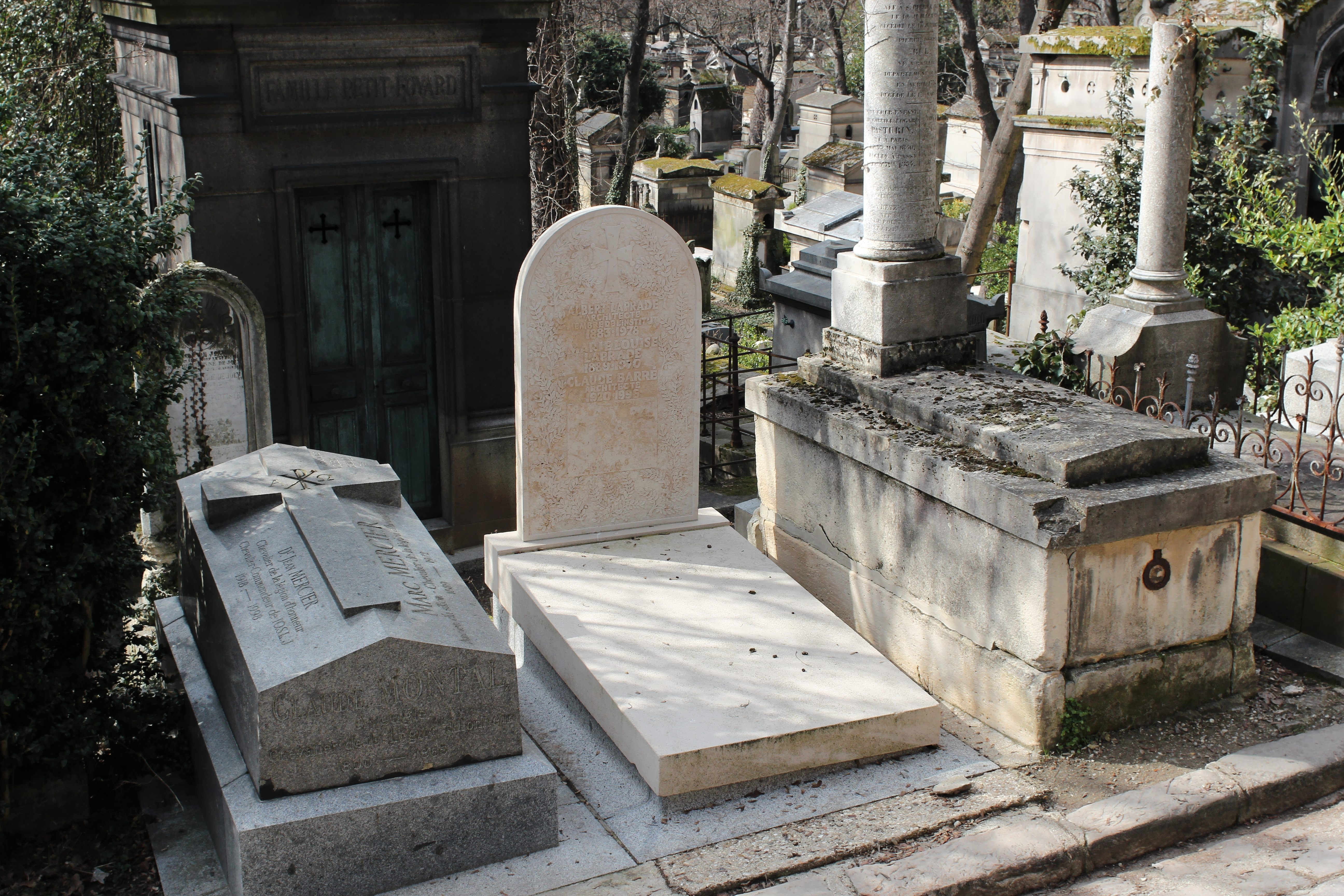 General view.